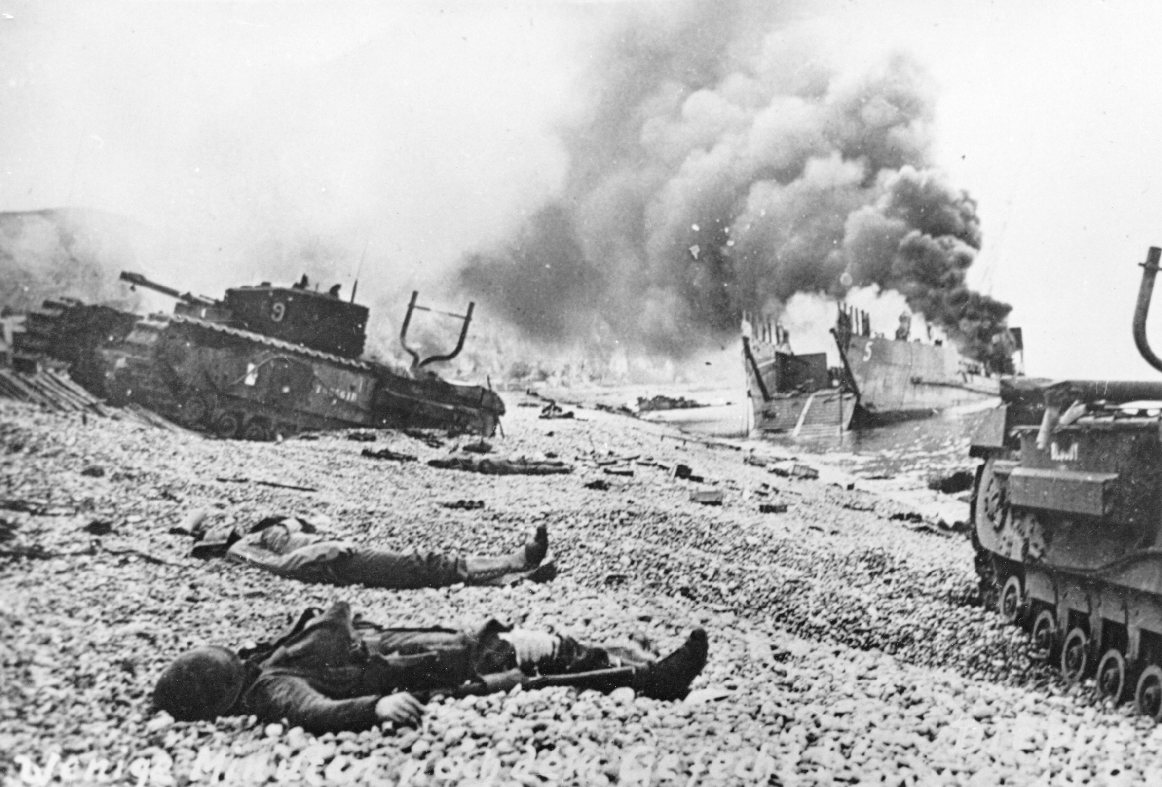 A burning LCT (Landing Craft, Tank) TLC5 No. 121 near the beach after the raid by allied (mostly Canadian) air, naval and land forces on german defences. Churchill tanks and bodies of allied servicemen are pictured on the beach. The tank at left is one from 9 Troop 14th Army Tank Battalion (The Calgary Regiment (Tank)) which was transported by TLC5.